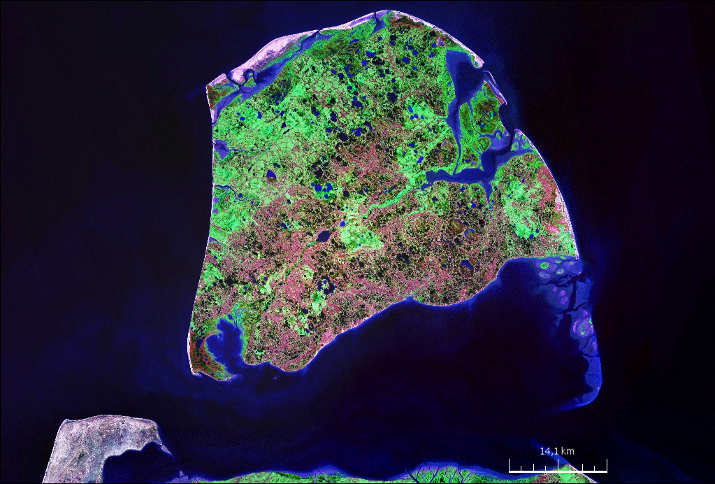 NASA World Wind Screen Shot (Geocover 2000) of Bely Island off Jamal Peninsula, Russian Arctic